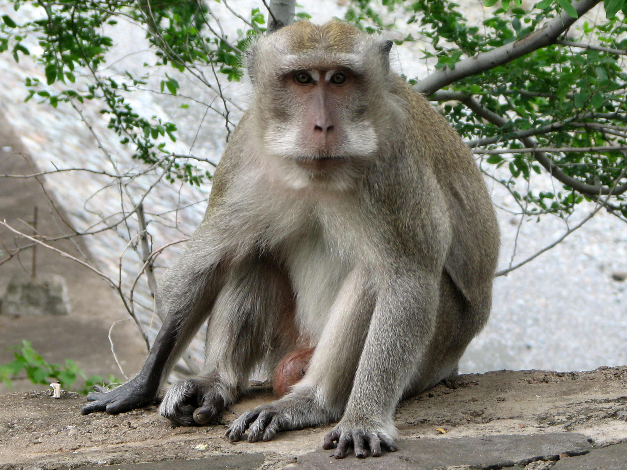 crab-eating macaque (Macaca fascicularis), in the temple of Pura Pulaki (Bali island, Indonesia)